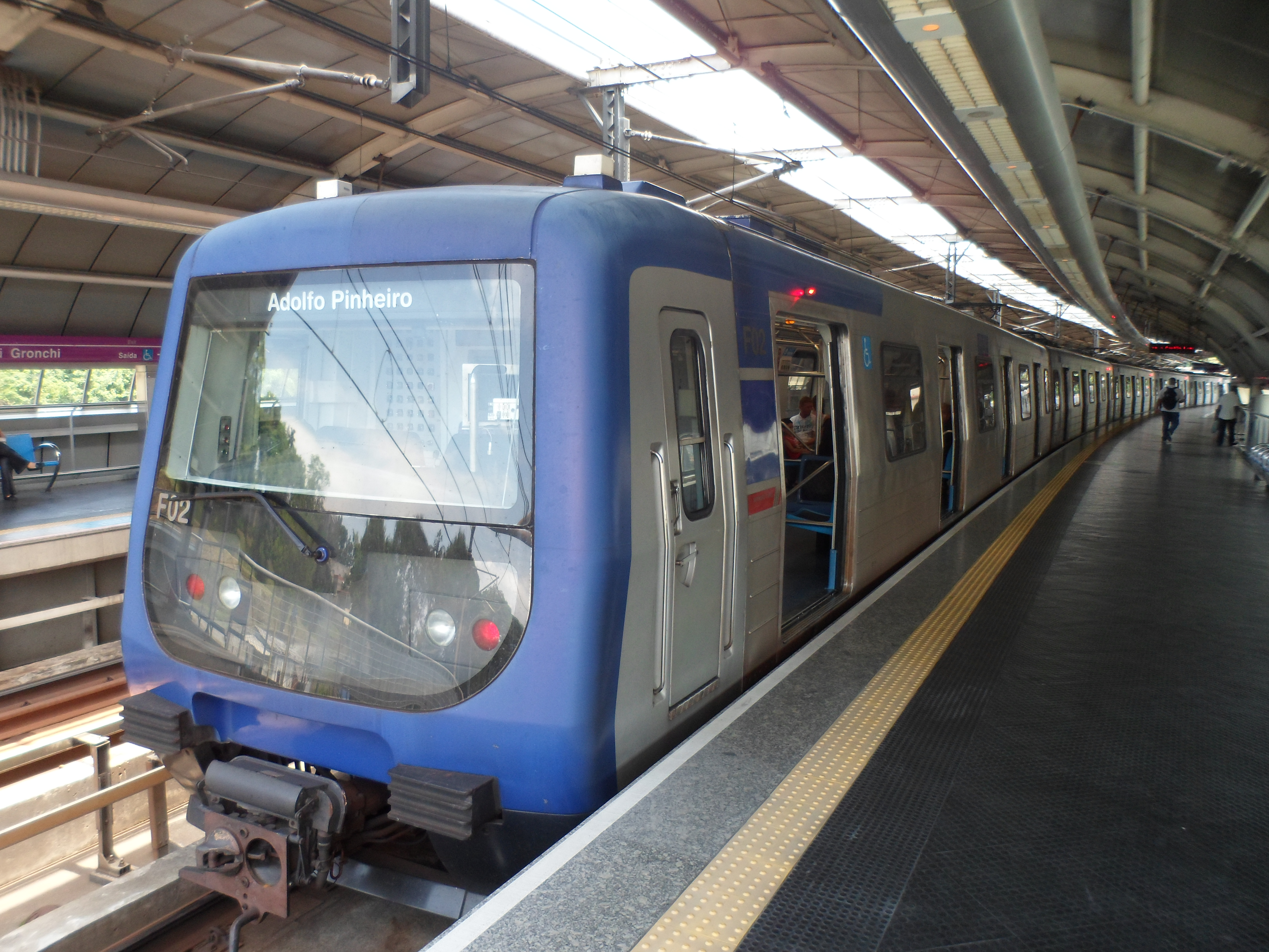 São Paulo subway F fleet EMU (train code F02, previously 502) in Giovanni Gronchi station, of Line 5-Lilac. October 2016